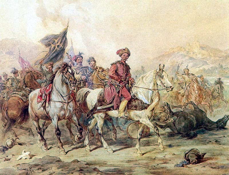 Lisowczycy